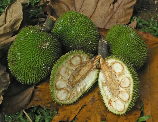 Artocarpus heterophyllus (Jackfruit), seeded form, from Darmaga, Bogor, West Java, Indonesia